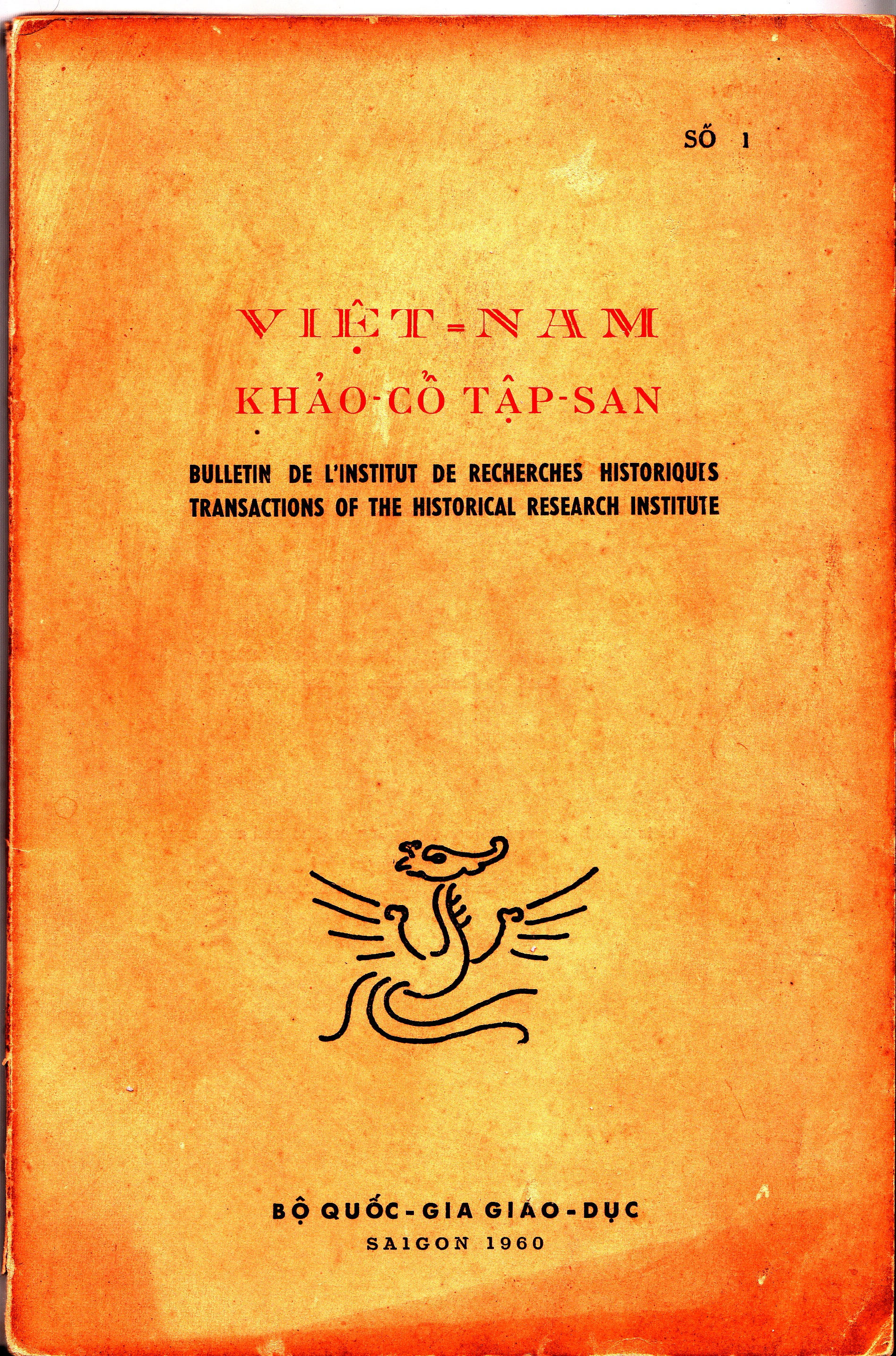 Bulletin of the Historical Research Institute